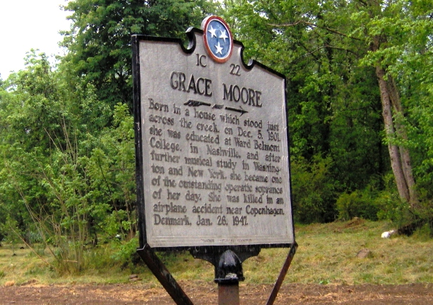 Historical marker noting the birthplace of actress Grace Moore in Del Rio. The sign reads: Born in a house which stood just across the creek on Dec. 5, 1901, she was educated at Ward Belmont College, in Nashville, and after further musical study in Washington and New York, she became one of the outstanding operatic sopranos of her day. She was killed in an airplane accident near Copenhagen, Denmark, Jan. 26, 1947. This marker is approximately 4 miles south of the junction of US-70 and TN-107.[1] Image by Brian Stansberry.